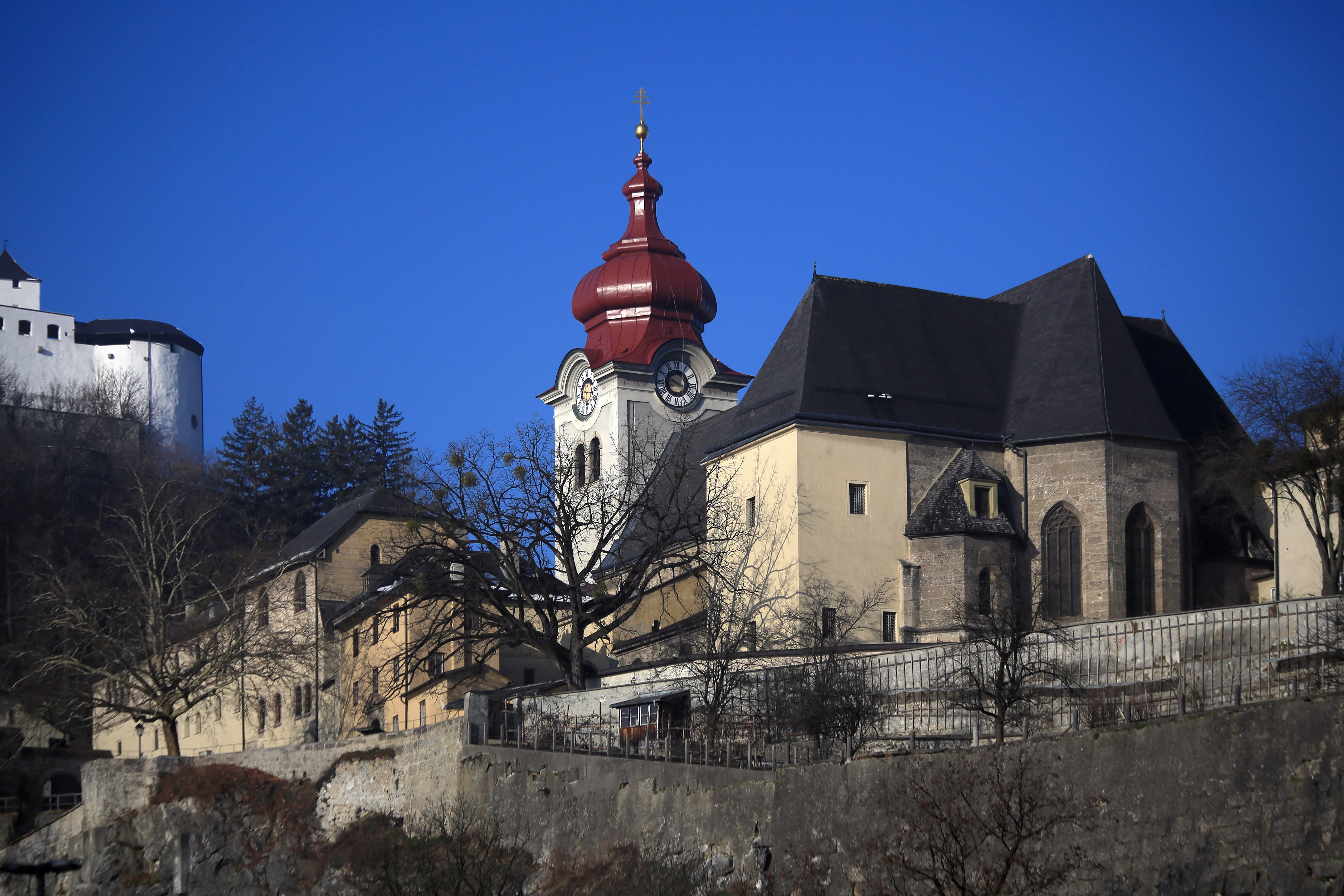 Nonnberg Abbey and church, Salzburg, Austria.